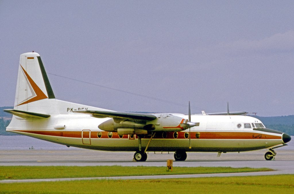 Fokker F.27-200 Friendship PK-PFV of PERTAMINA at Singapore Seletar in 1974